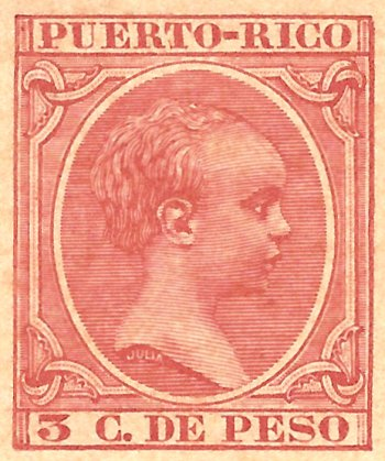 3 centavos indicium of 1894 postal card of Puerto Rico.